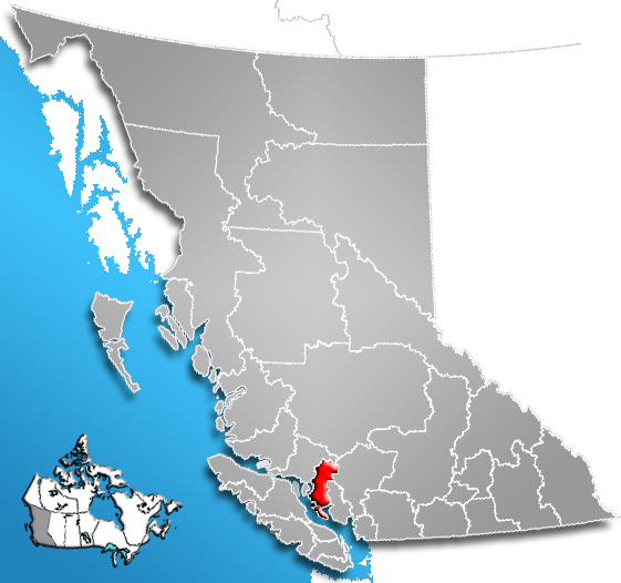 Location of qathet Regional District, British Columbia